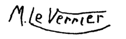 Signature of Max Le Verrier